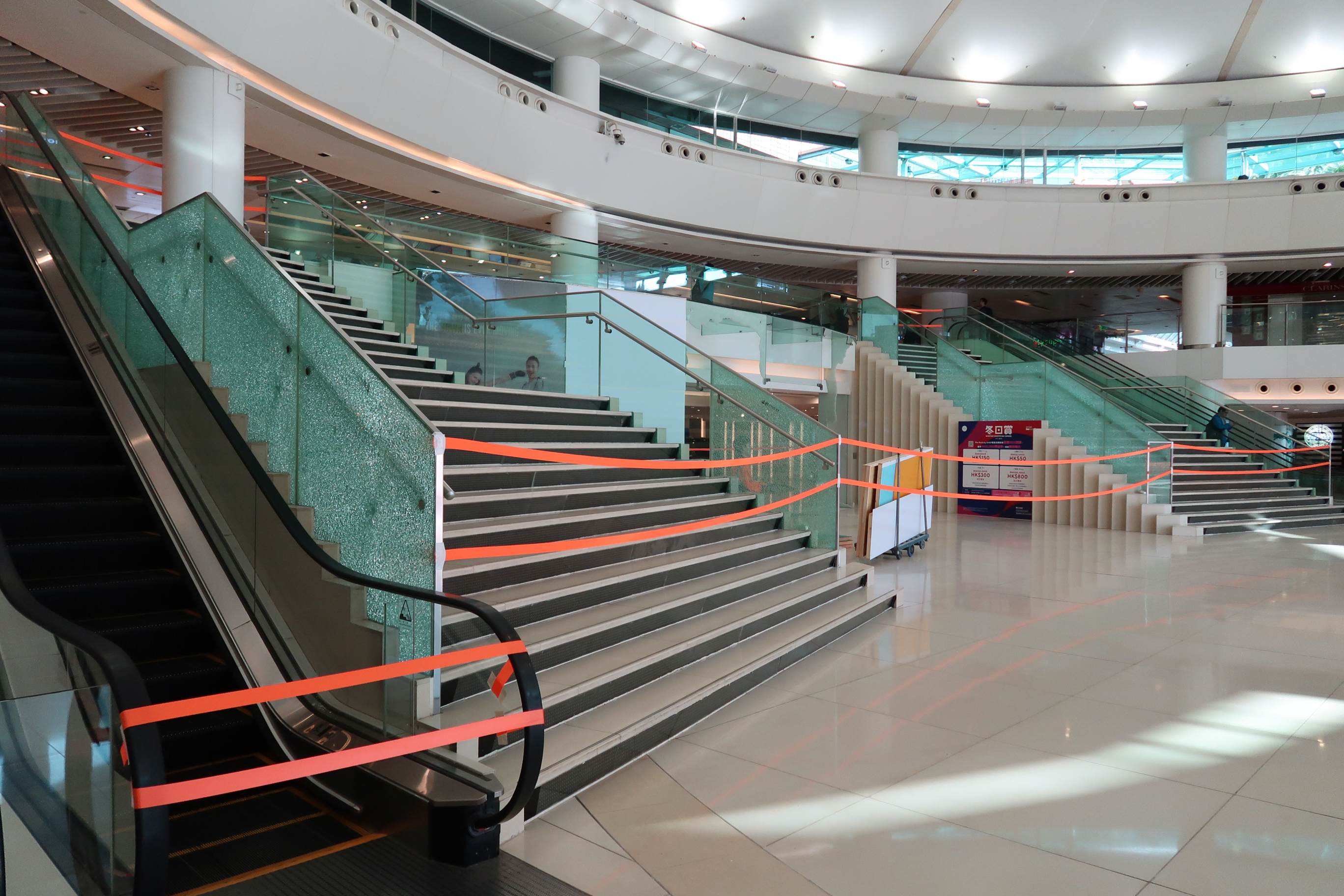 New Town Plaza Entrance Arena Glasses damage